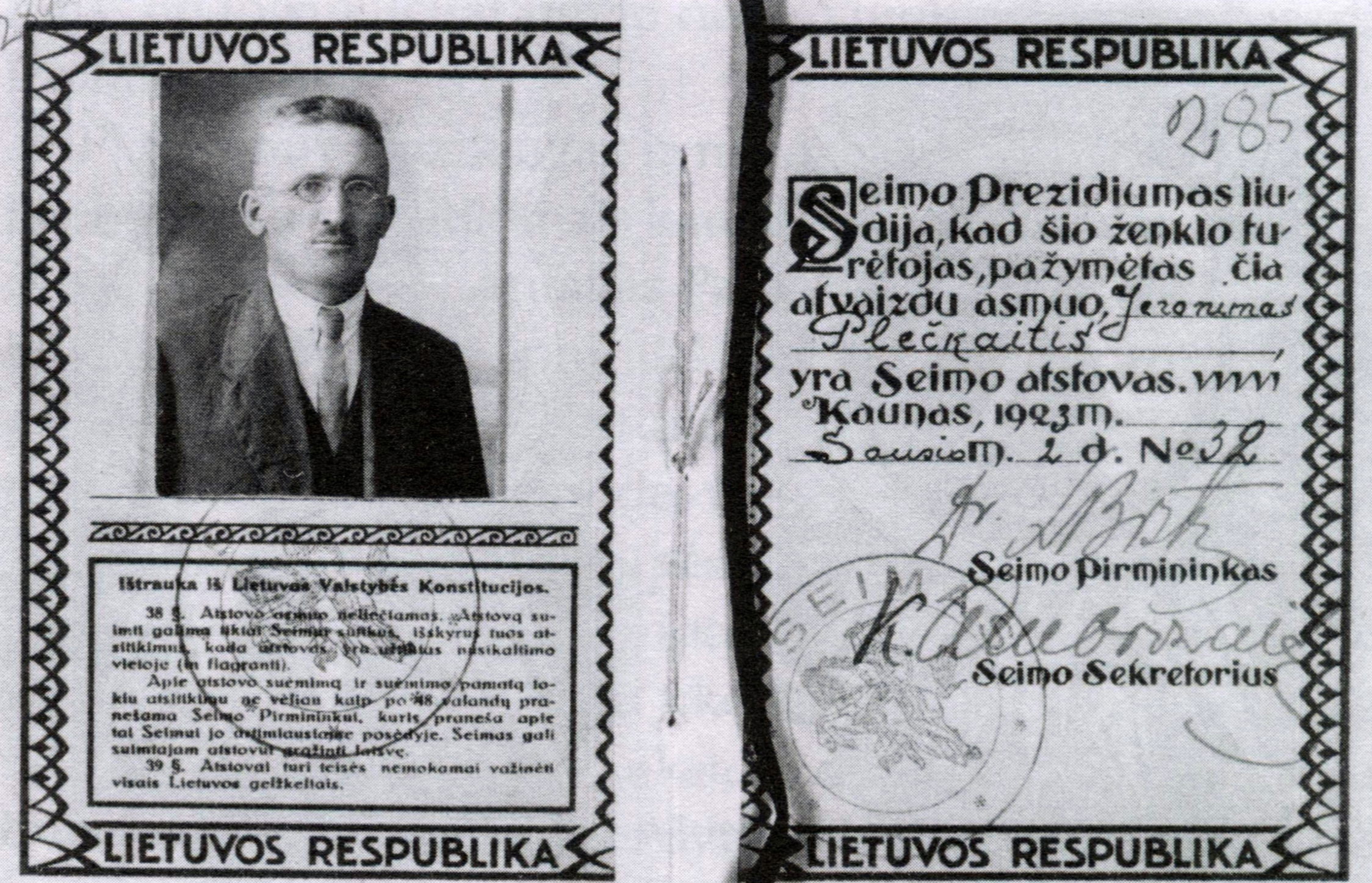 Certificate of member of 3 Seimas Jeronimas Plečkaitis, Lithuania (Museum Aušra)